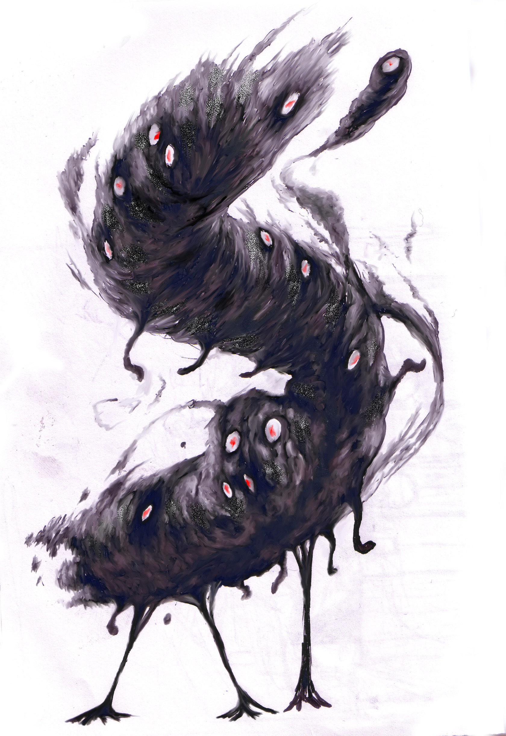 Flying Polyp, a fictional creatures from the Lovecraft Mythos.